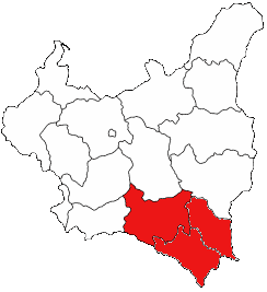 Lesser Poland, a part of the 2nd Commonwealth of Poland